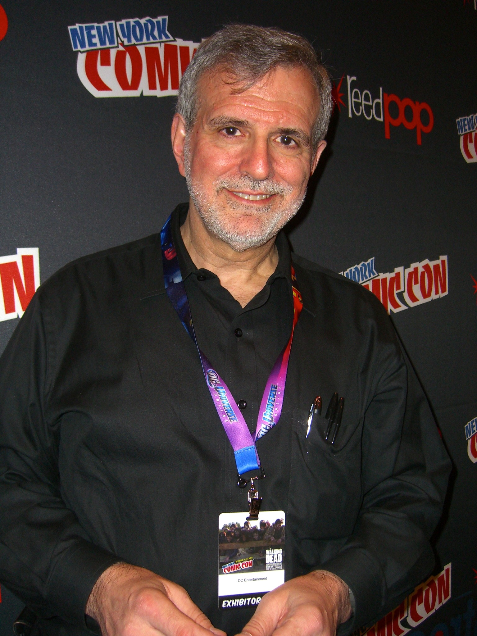 Illustrator and Mad magazine Art Director Sam Viviano at the Mad magazine discussion panel on Day 3 of the 2012 New York Comic Con, Saturday October 13, 2012 at the Jacob K. Javits Convention Center in Manhattan. This photo was created by Luigi Novi. It is not in the public domain, and use of this file outside of the licensing terms is a copyright violation.